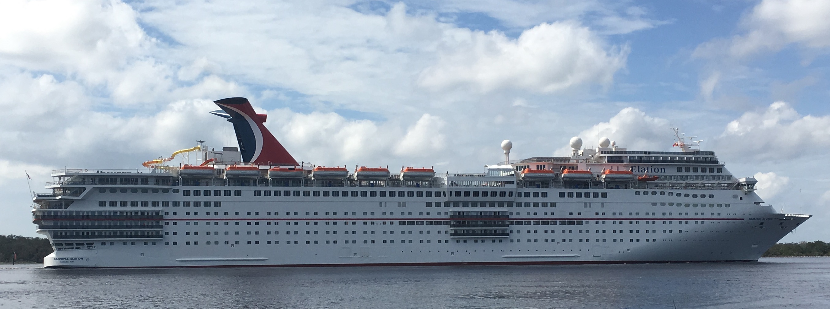 The Carnival Elation arriving in Jacksonville on October 7, 2017.